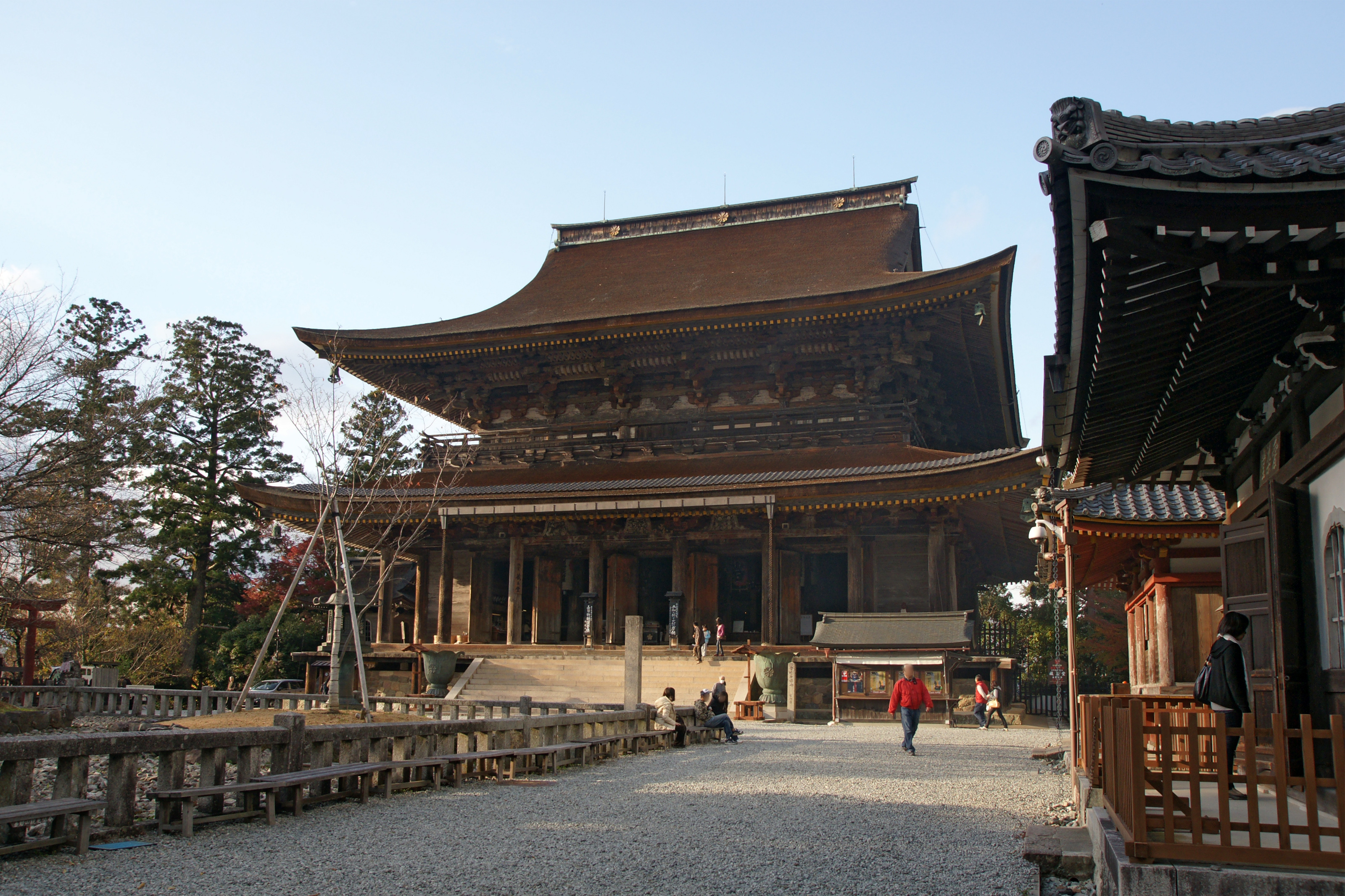 Zaodo (Hondo) of Kinpusenji Buddhist temple (Japan's National Treasure) in Yoshino, Nara prefecture, Japan. It was rebuilt in 1592.